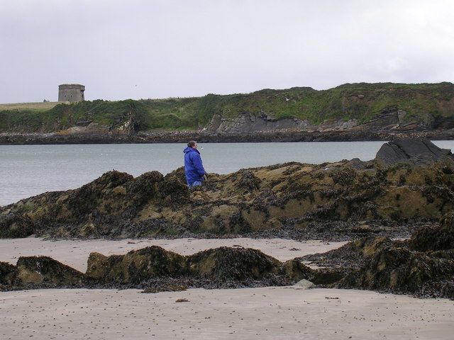 Martello Tower and South Cliff Face